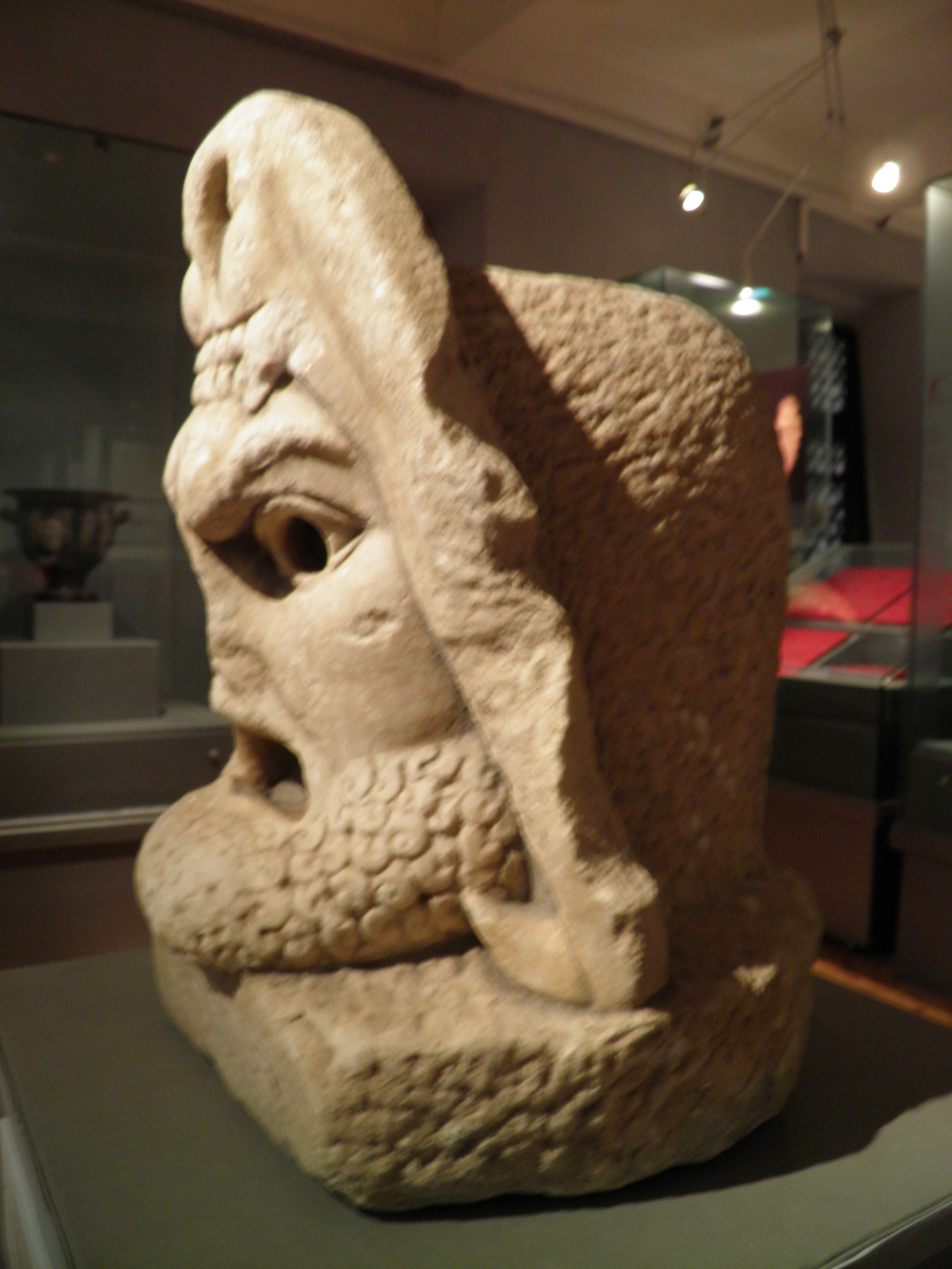 Archaeological Museum of Bitola, Republic of Macedonia Archaeological Museum of Bitola